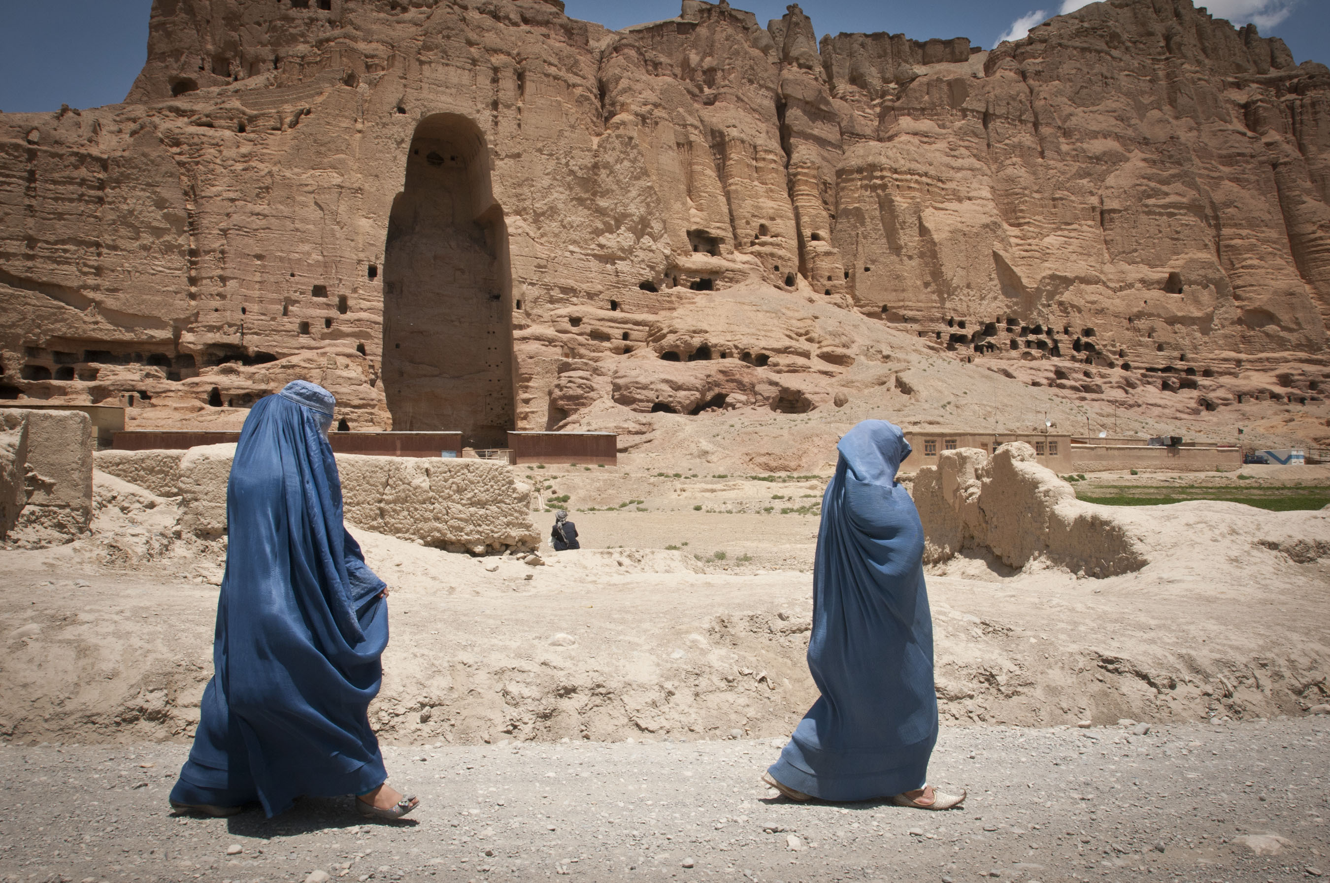 Two women walk past the huge cavity where one of the ancient Buddhas of Bamiyan, known to locals as the "Father Buddha," used to stand, June 17, 2012. The monumental statues were built in A.D. 507 and 554 and were the largest statues of standing Buddha on Earth until the Taliban dynamited them in 2001. Unit: 7th Mobile Public Affairs Detachment DVIDS Tags: soldier; agriculture; Global War on Terror; farmers; Afghan farmers; battlefield; photojournalist; PAO; district; soldiers; Afghanistan; provincial reconstruction team; U.S. Army; Regional Command East; province; mission; Army; ISAF; RC East; Operation Enduring Freedom; Bamyan; Army photographer; Bamyan PRT; 7th MPAD; New Zealand army; Buddhas of Bamyan; Army photo; military photography; Bamyan Buddhas; Buddha statues; CJTF-1; Ken Scar; front lines; war photography; cover photo; Army photograph; Army picture; war photograph; military photograph; old tank; Afghan potatoes; Russian tank; abandoned tank; Task Unit Crib; Father Buddha statue; Buddhas of Bamiyan